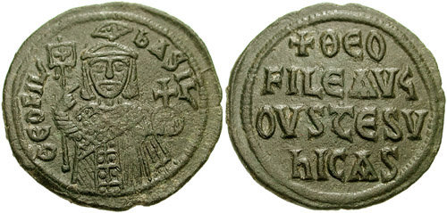 THEOPHILUS. 829-842 AD. Æ Follis (29mm, 7.58 gm). Constantinople mint. Struck 830/1-842 AD. ΘEOFI bASII, half-length bust facing, holding labarum and globus cruciger / +Θ EO/ FILE AVG/ OVSTE SV/ NICAS in four lines. DOC III 15d; SB 1667. Near EF, dark green patina. Follis of a new type, minted in celebration of Theophilus' victories against the Arabs in the 830s. On the obverse he is represented in triumphal attire, wearing the toupha, and on the reverse the legend "Theophilus Augustus, you conquer".